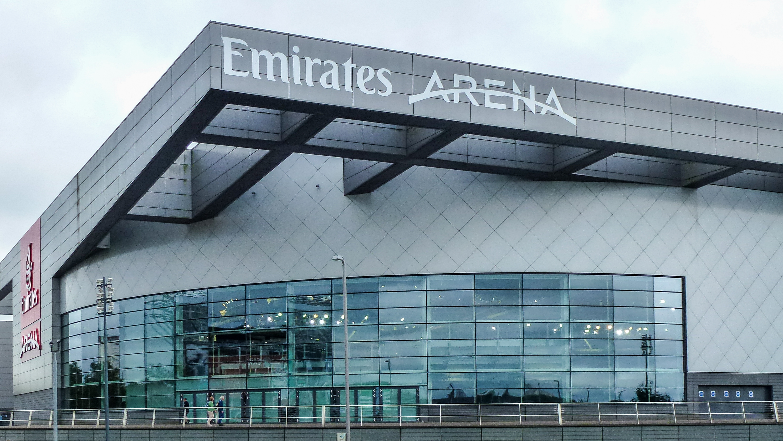 Emirates Arena during the European Championships 2018